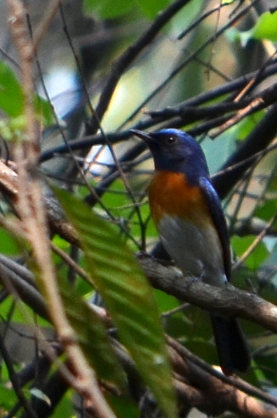 Blue-throated Flycatcher photographed near Aizawl, Mizoram